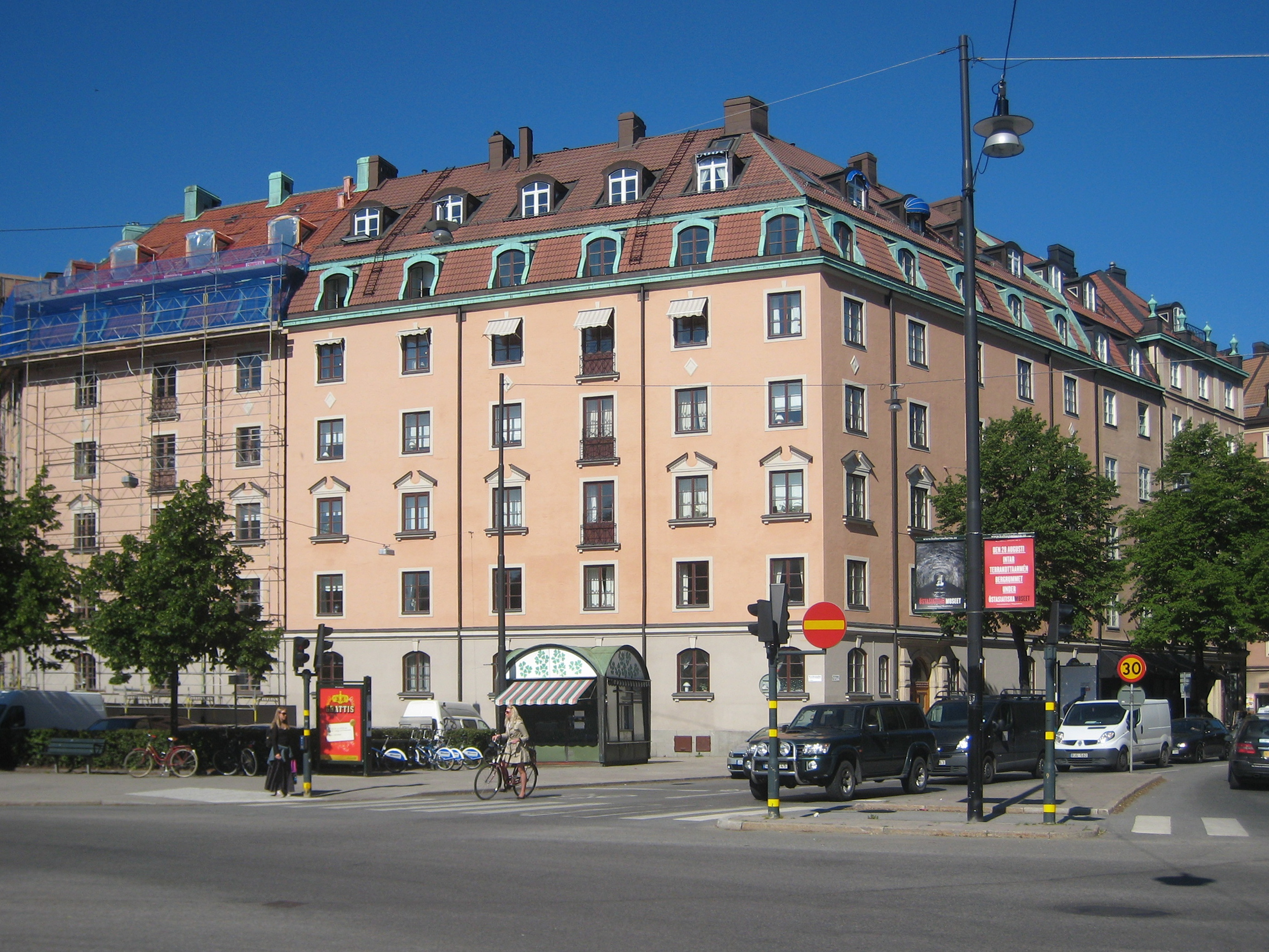 Three residential buildings (Aspen 3, 4 and 5) designed by architect Hjalmar Westerlund located at the junction of Runebergsgatan and Karlavägen. Built 1923-24.